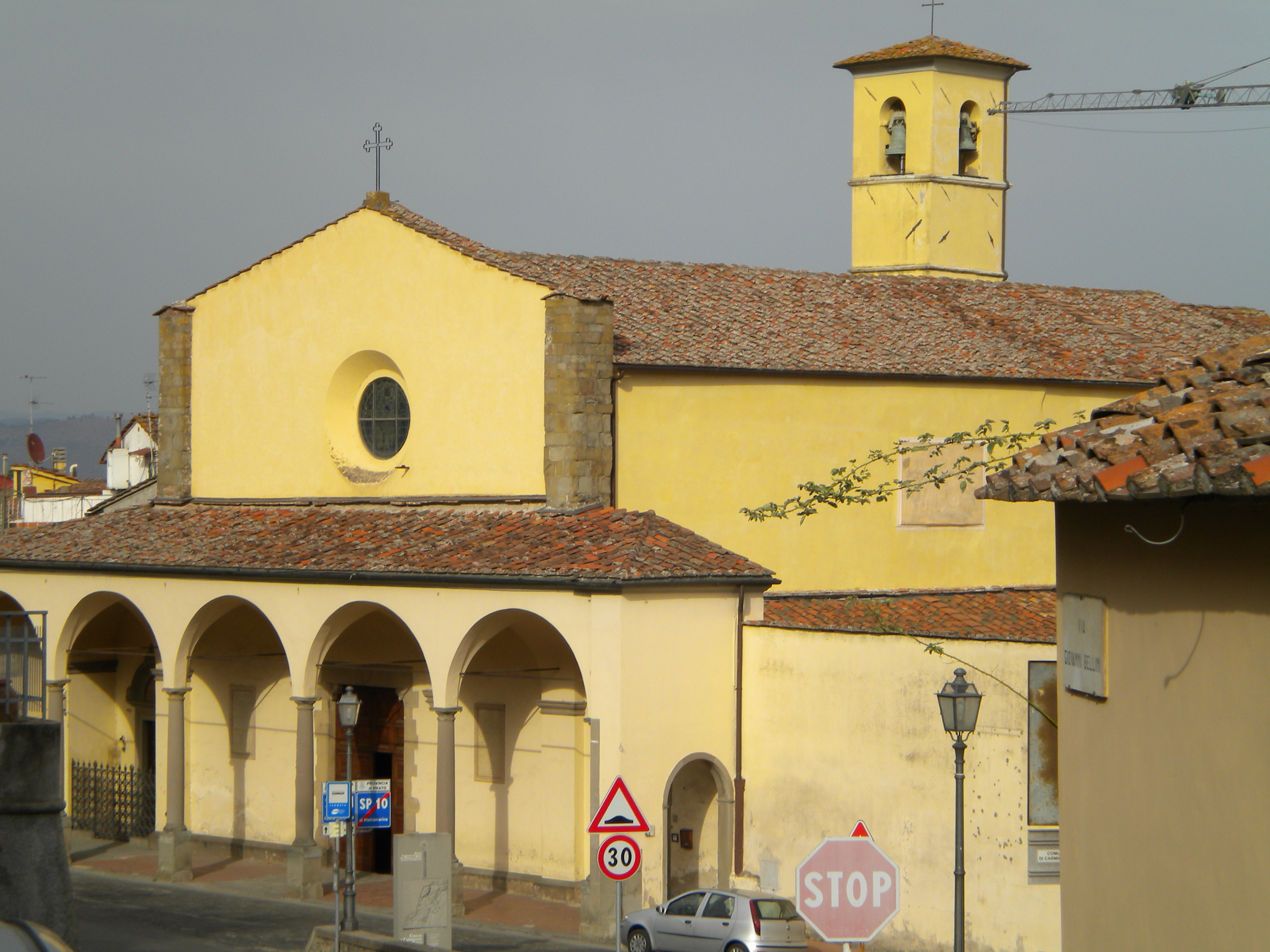 church